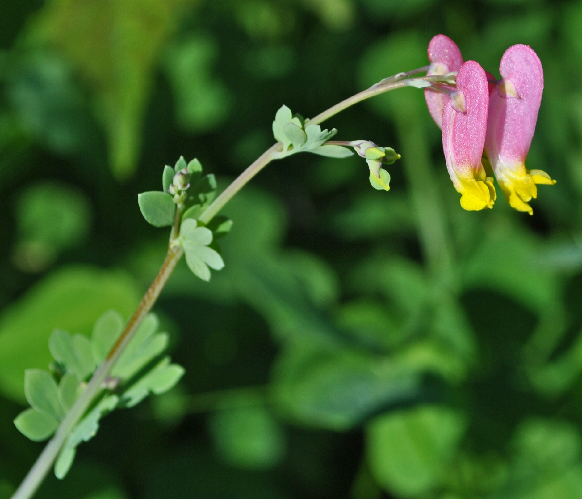 A closeup of a pale corydalis flower (Capnoides sempervirens) in Spur Lake State Natural Area in Oneida County, Wisconsin.